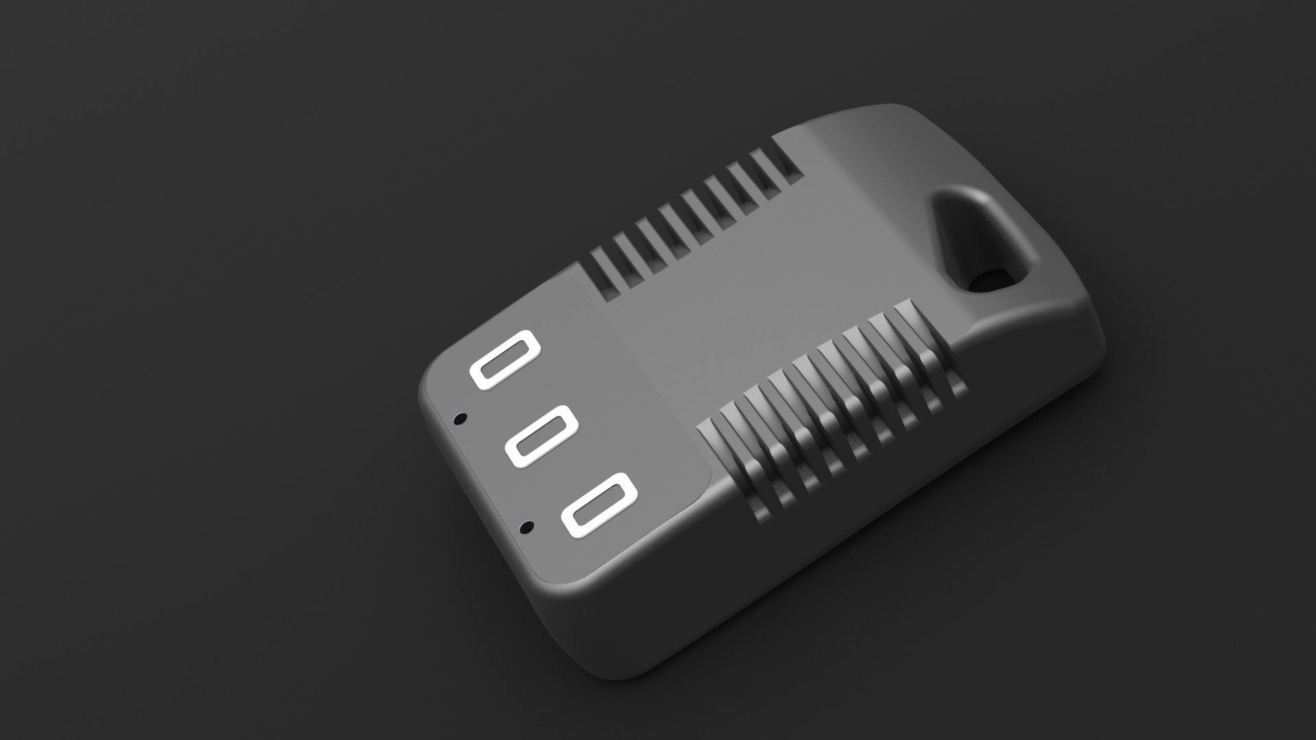 TraceME.